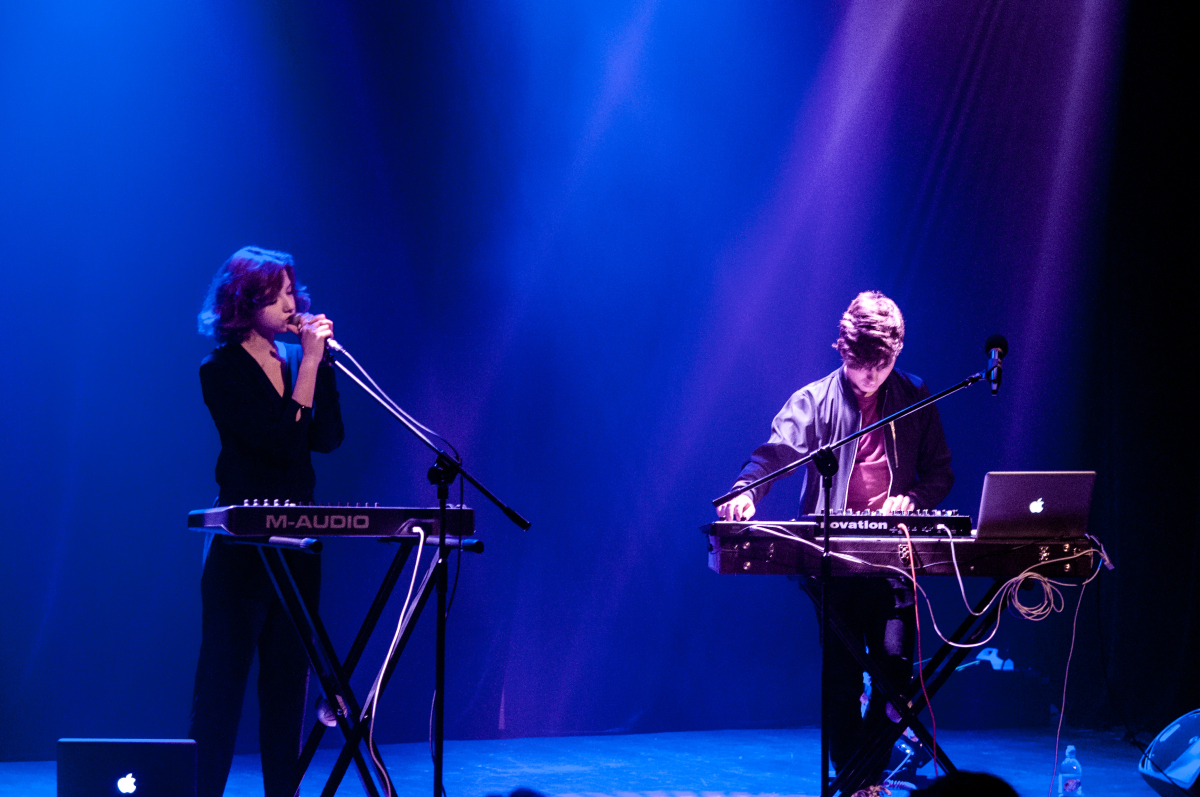 Polish band The Dumplings